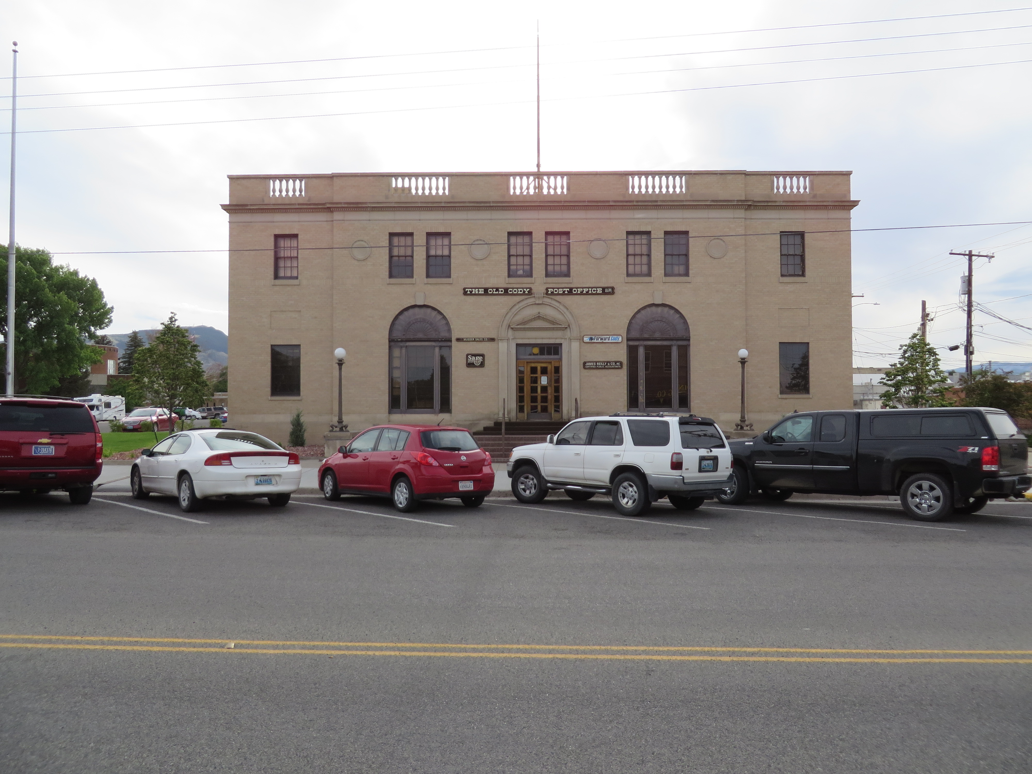 The Old Cody Post Office, 1131 13th Street, Cody, Wyoming.